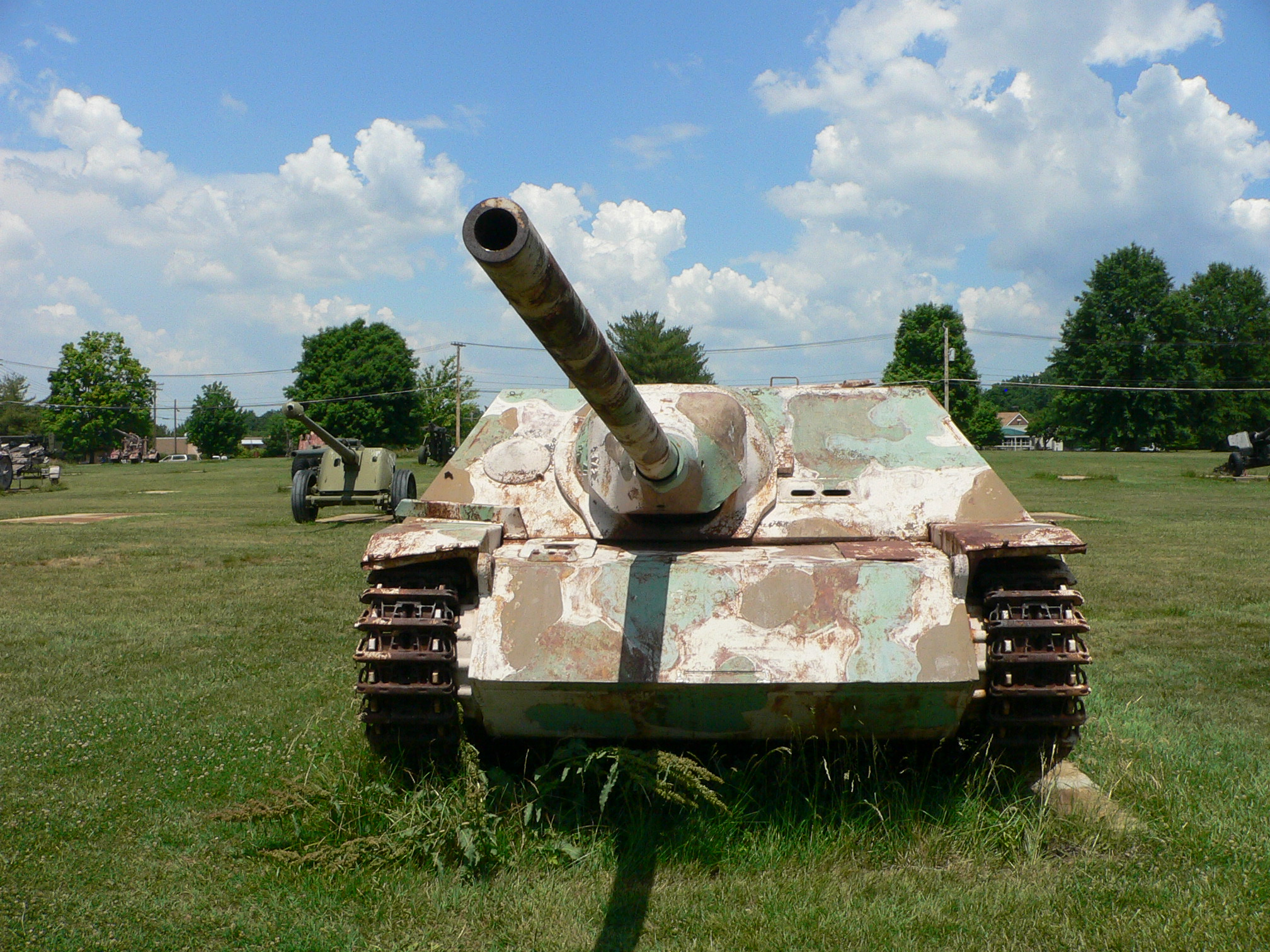 Picture taken by myself, Mark Pellegrini, at the United States Army Ordnance Museum (Aberdeen Proving Ground, MD) on June 12, 2007.